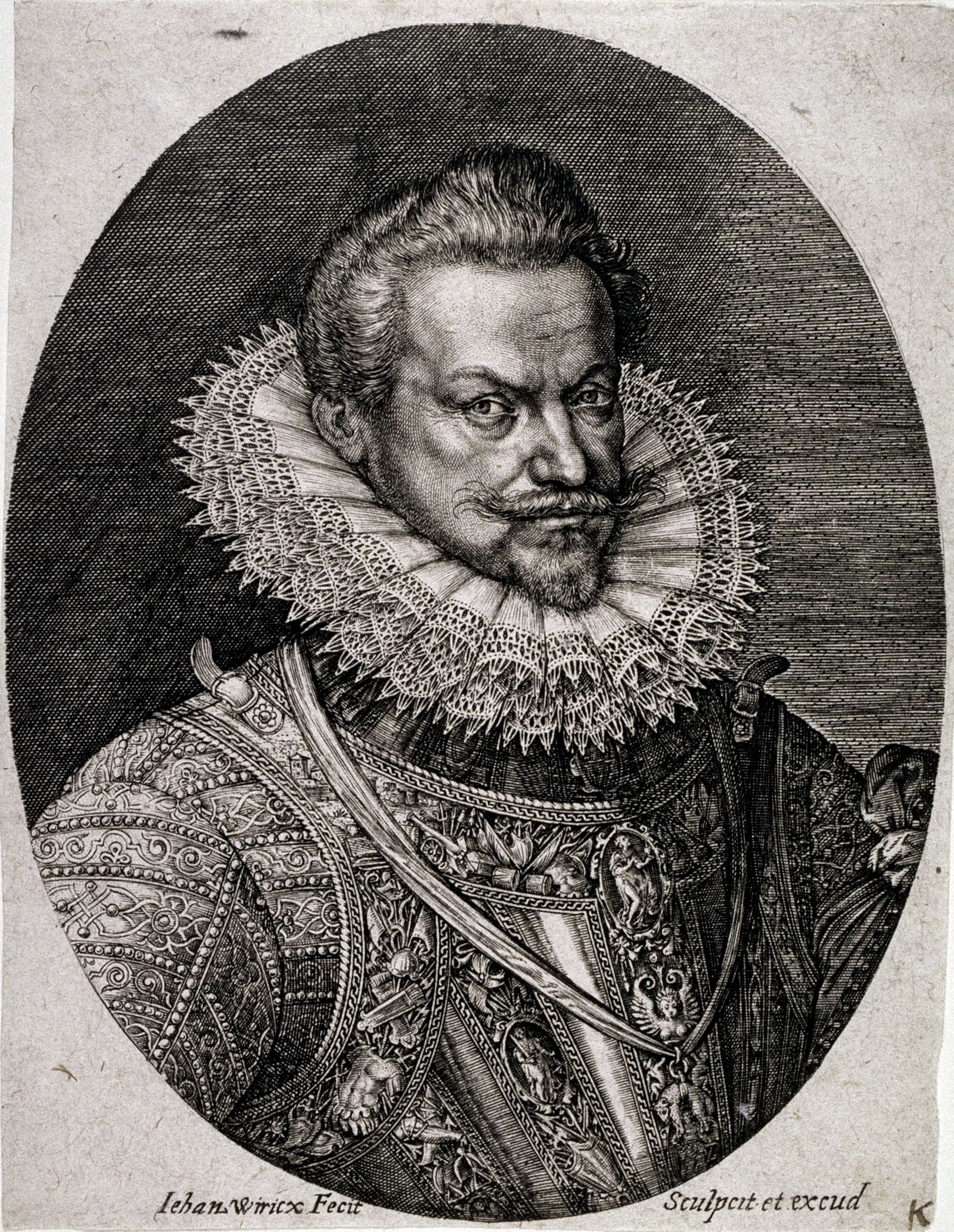 Portrait of Philip William of Orange